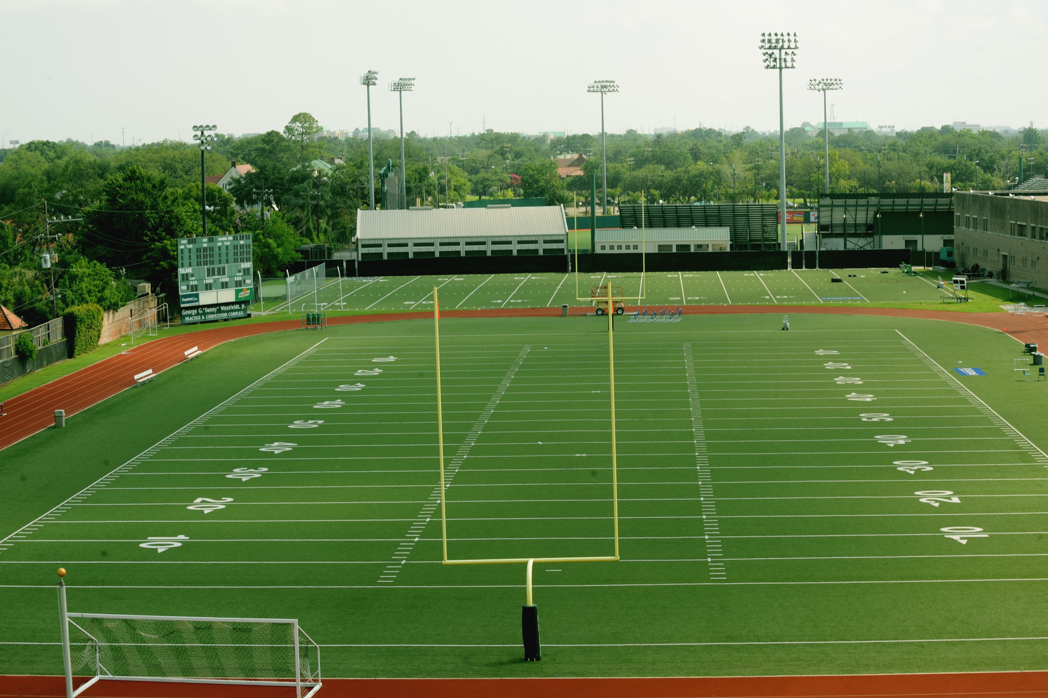 George G. Westfeldt Complex (soccer) and Danny Thiel Track